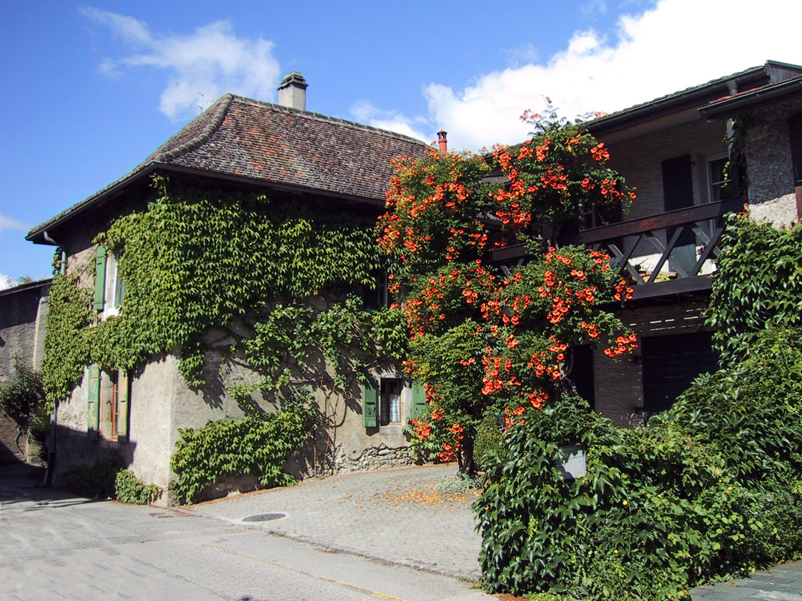 A typical mid-eighteenth century vigneron (wine-grower's) from Vich, Vaud canton, Switzerland.